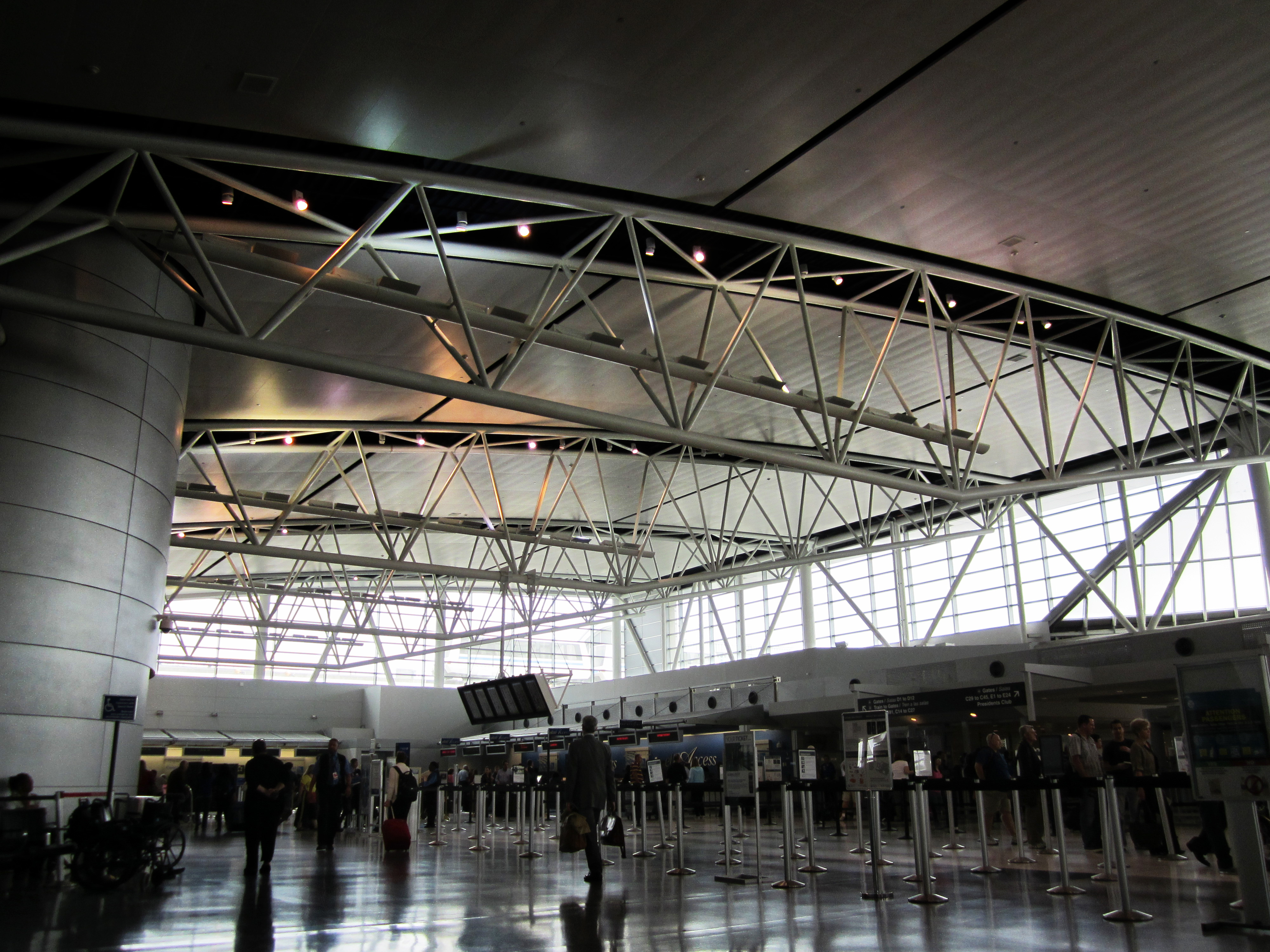 George Bush Airport Terminal E